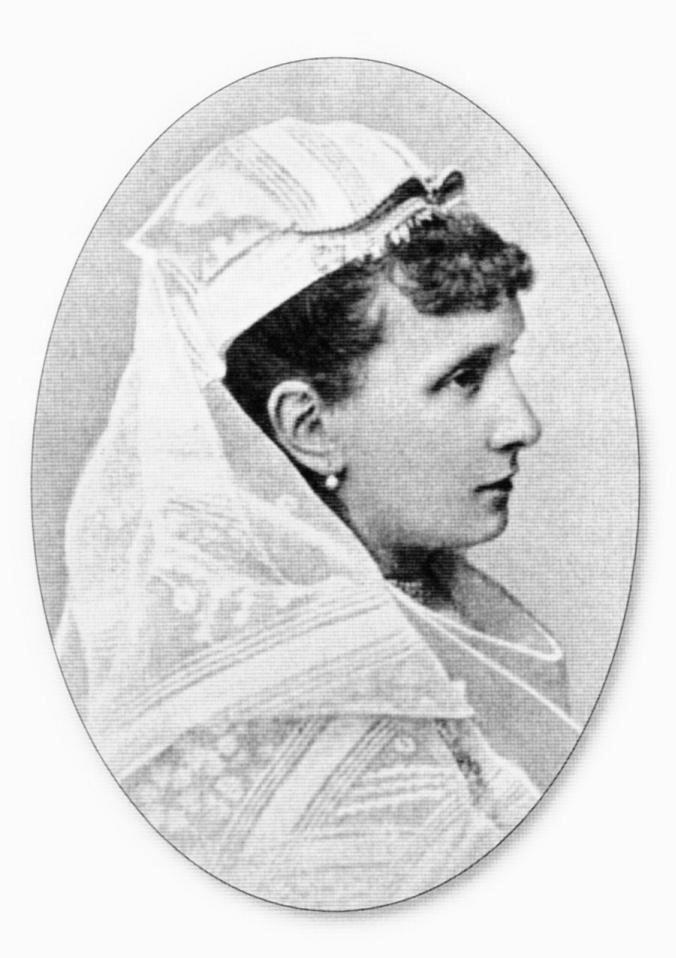 Princess Marie of Battenberg